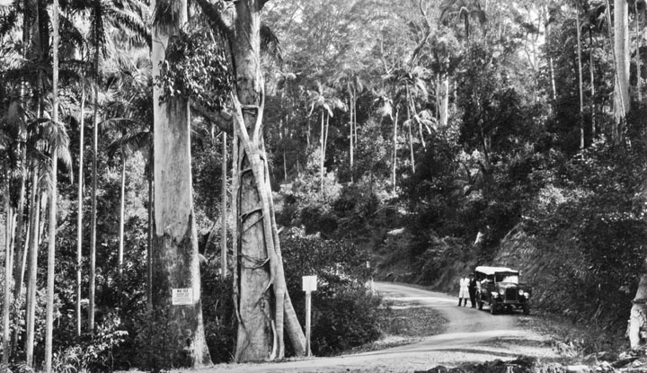 View of the road to Tamborine Mountain, South Queensland.